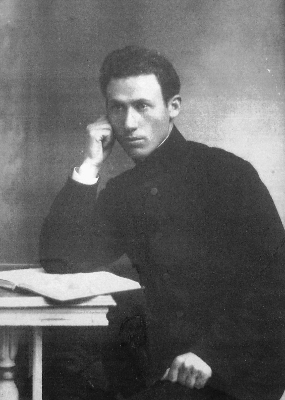 Russian/Moldovan/Romanian politician Ion Bozdogan, ca. 1914.